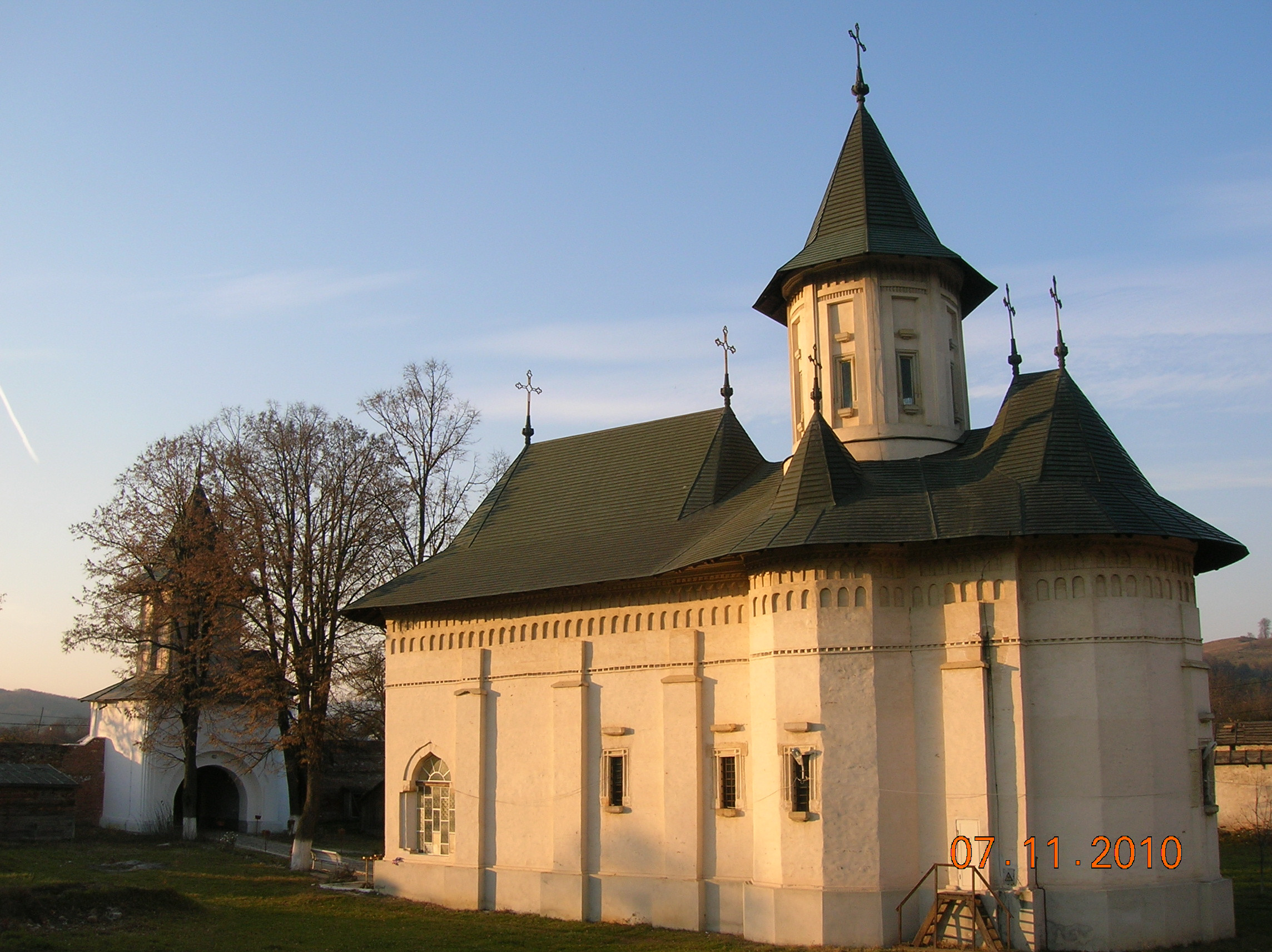 The church within the walls of the Mera monastery in Vrancea, Romania